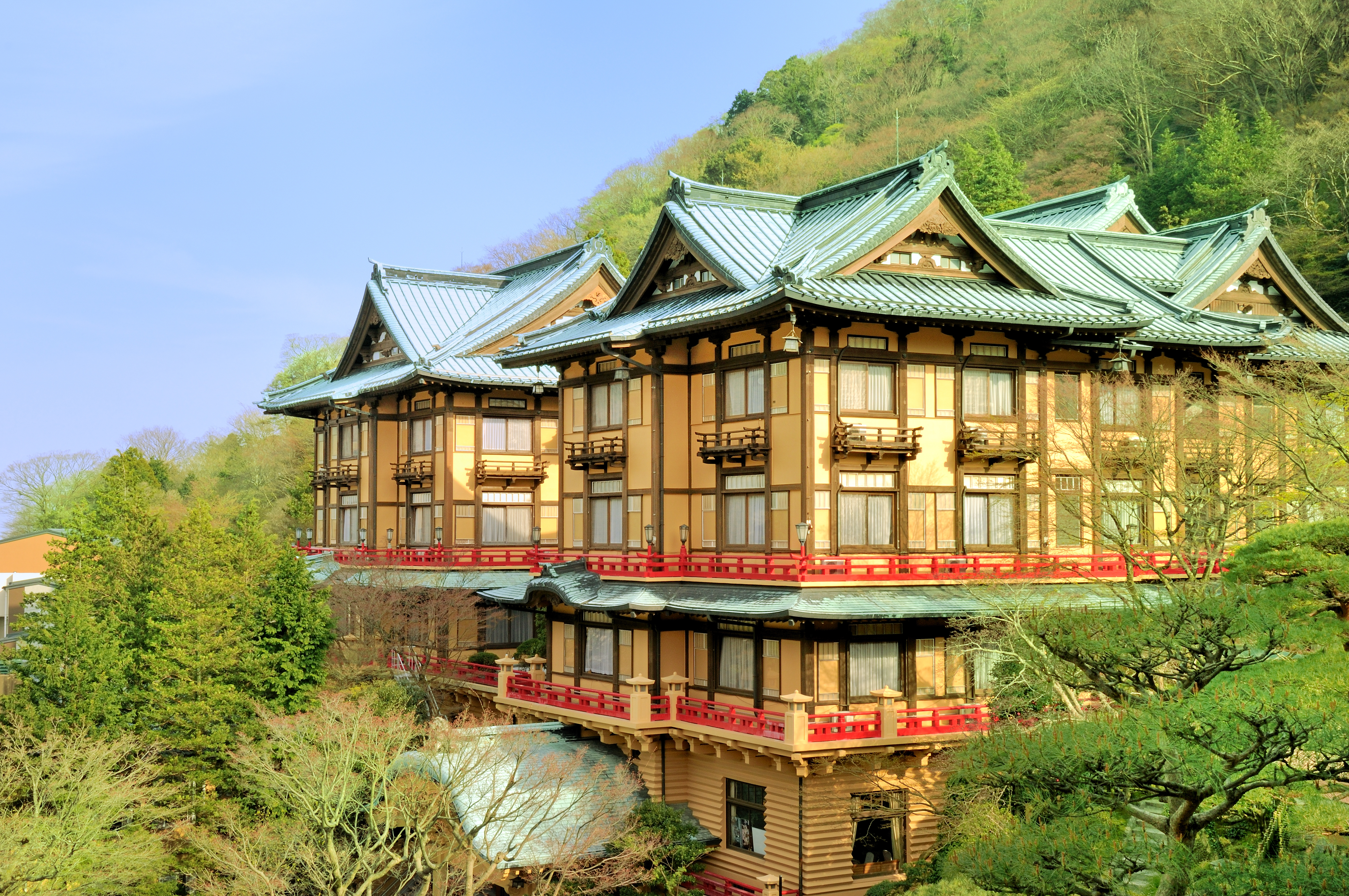 Flower Palace, or Hana-goten in Japanese language, is the annex of Fujiya Hotel, which is the one of the oldest western style hotels in Japan, and was established in 1878. And this is one of the most famous hotels in Hakone, Japan.